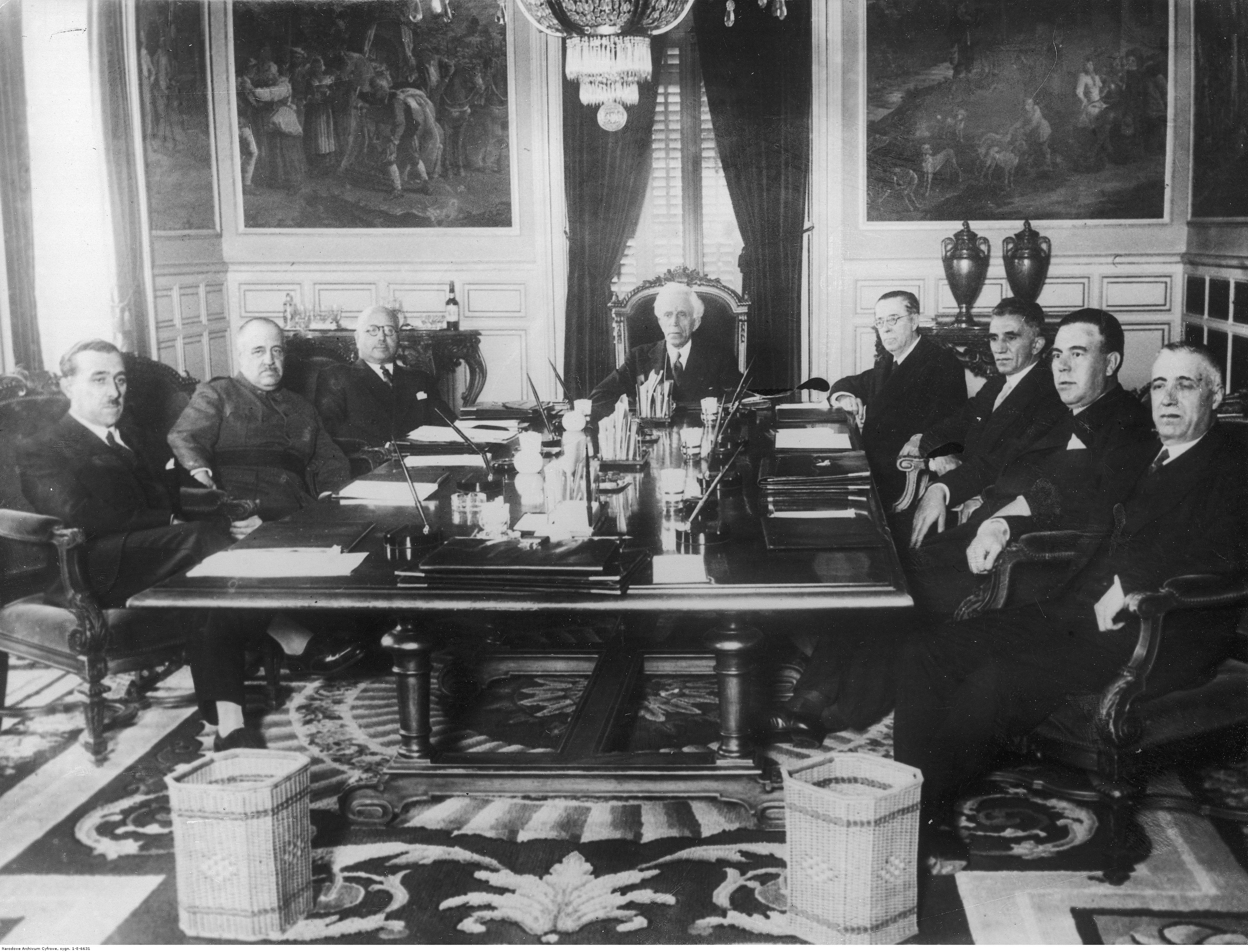 The first meeting of the second government of Manuel Portela Valladares (1868-1952).